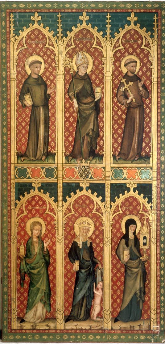 Altar of the Poor Clares closed left wing